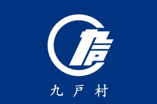 Flag of Kunohe Iwate